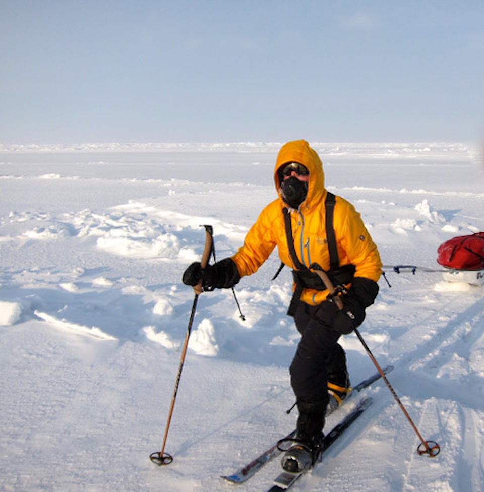 The Explorers Grand Slam is a challenge that includes summiting the highest peak on every continent and skiing the minimum of the last degree to the geographic north and south poles.